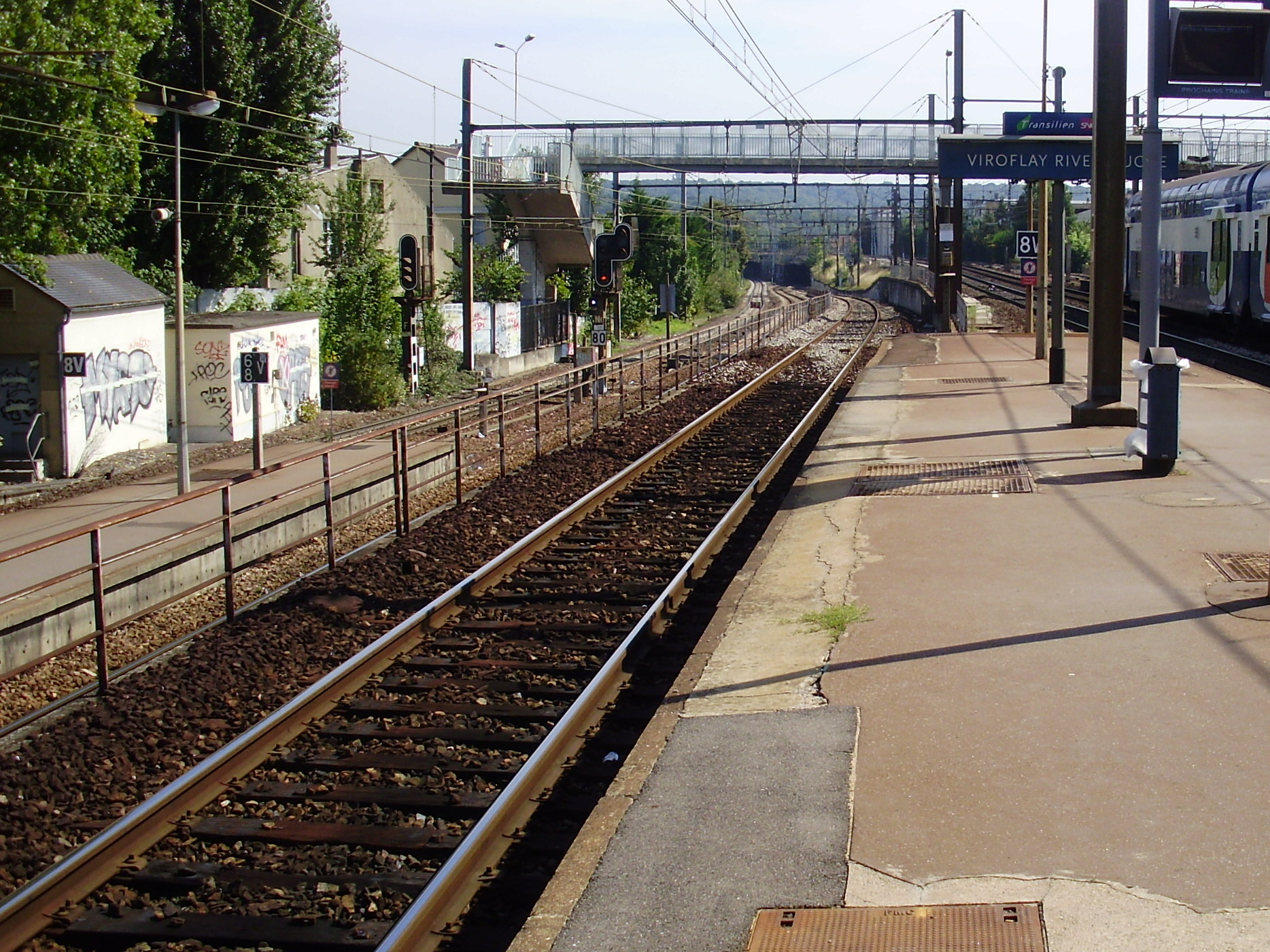 Viroflay-Rive-Gauche station, in Viroflay, Yvelines, France (view of tracks in the east of the station by looking to Paris : the track on the left of the platform is for the RER C line and is used by trains coming from Paris)